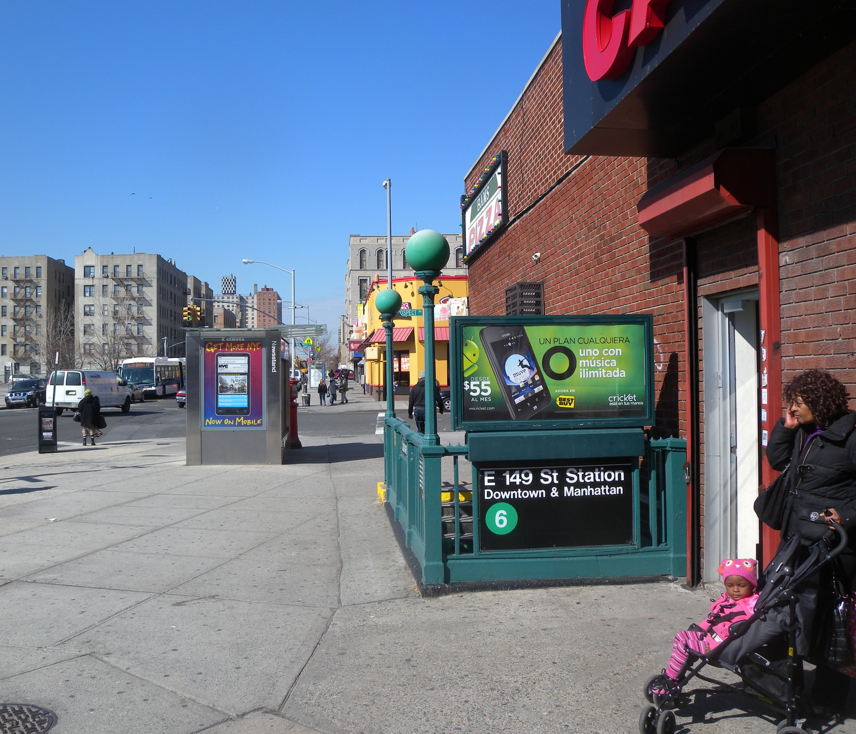 Looking west at 149th Street station stair and Prospect Avenue on a sunny midday.